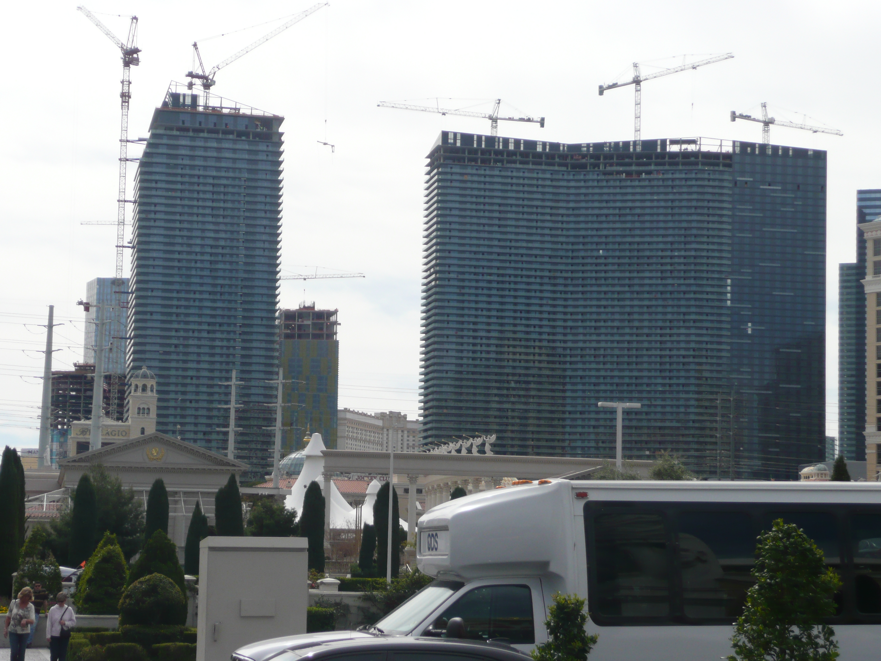 The Cosmopolitan Resort & Casino under construction as seen from Caesars Palace.